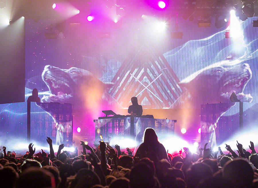 Alan Walker at the minor stage during Stavernfestivalen in Stavern on 08. July 2016. Lineup:Alan Olav Walker (electronic dance musician)